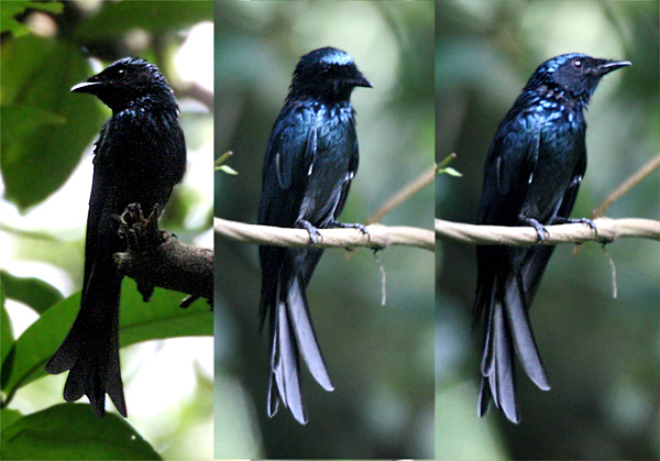 Bronzed Drongo Dicrurus aeneus at Narenderpur near Kolkata, West Bengal, India.